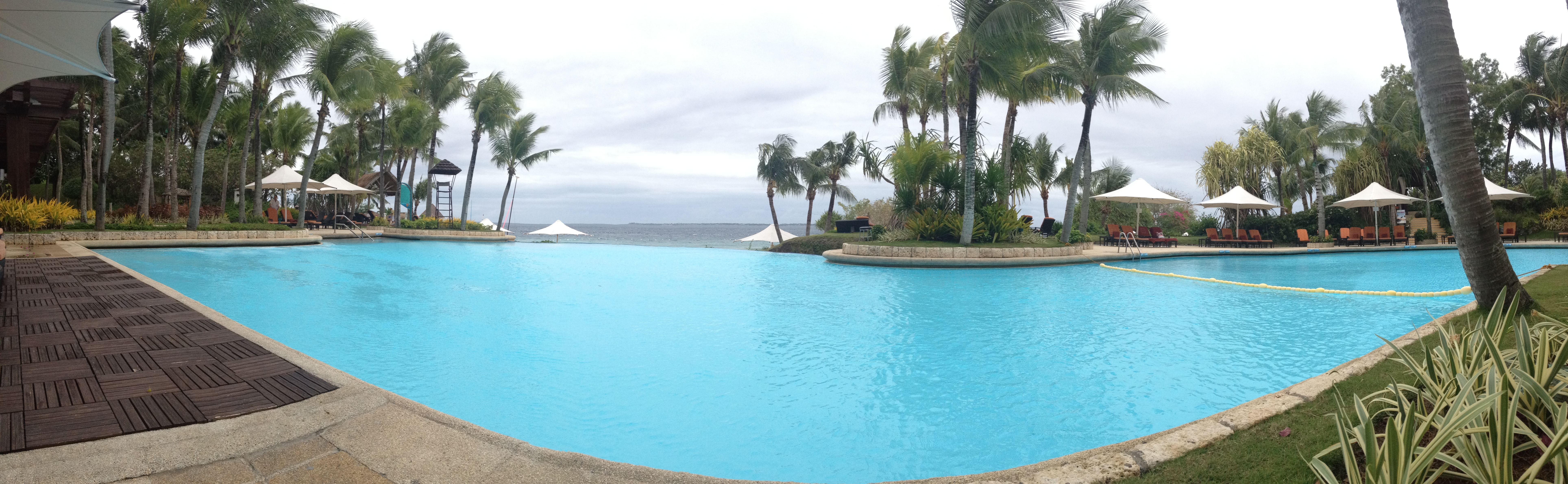 One of the Infinity pools at the Shangri-La Mactan Island Resort & Spa in Cebu